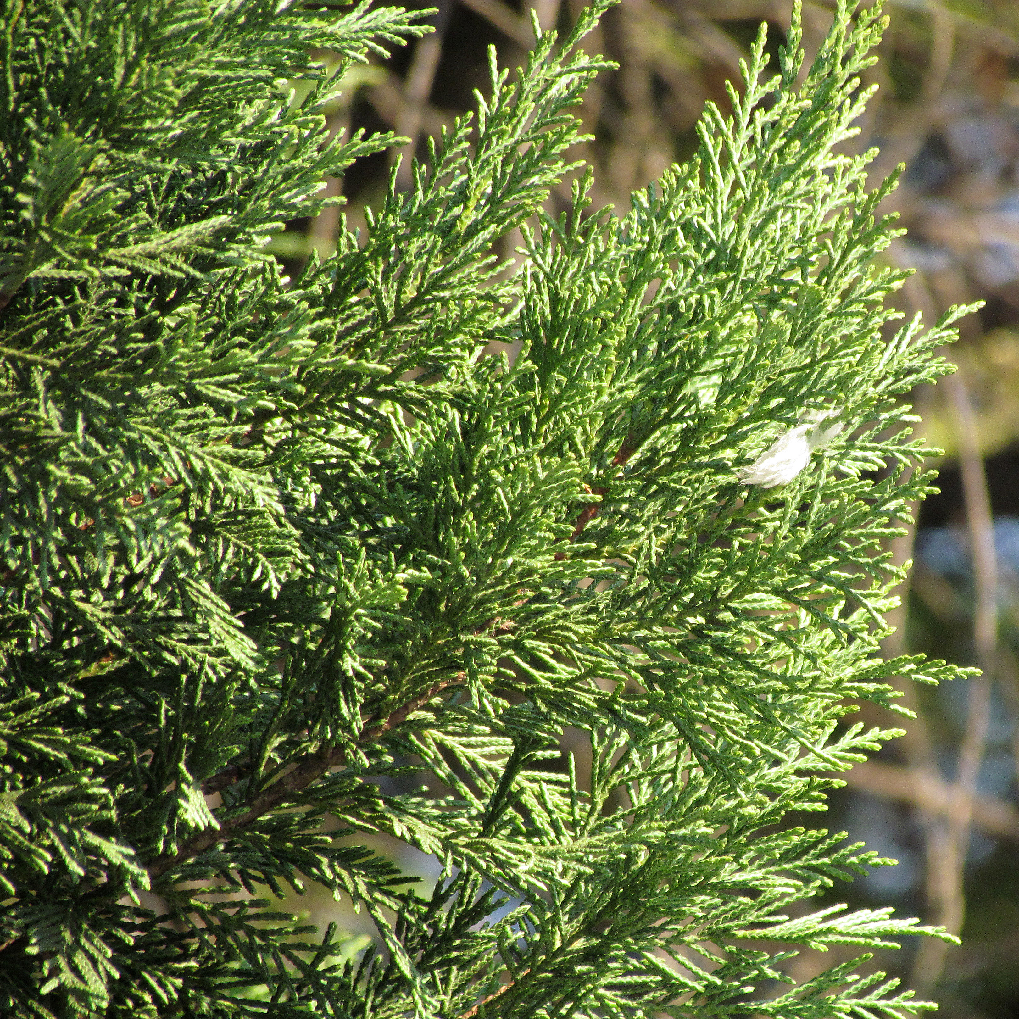 Juniperus virginiana twig